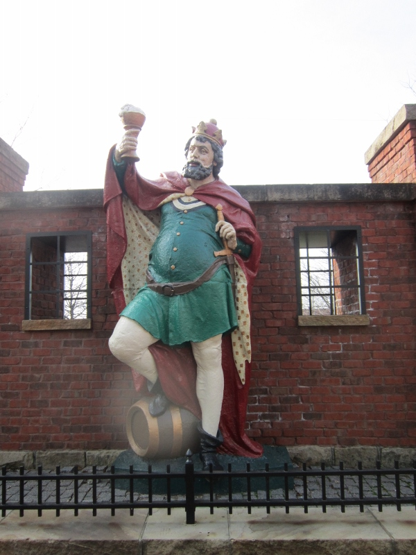 landmark statue in brewery district